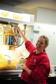 Army and Air Force Exchange Service popcorn making. Tina Piper, Army and Air Force Exchange Service food court manager, uses the new popcorn maker for the first time at the Whiteman Theater grand re-opening Nov. 27, 2013, at Whiteman Air Force Base. (U.S. Air Force photo by Staff Sgt. Brigitte N. Brantley/Released)